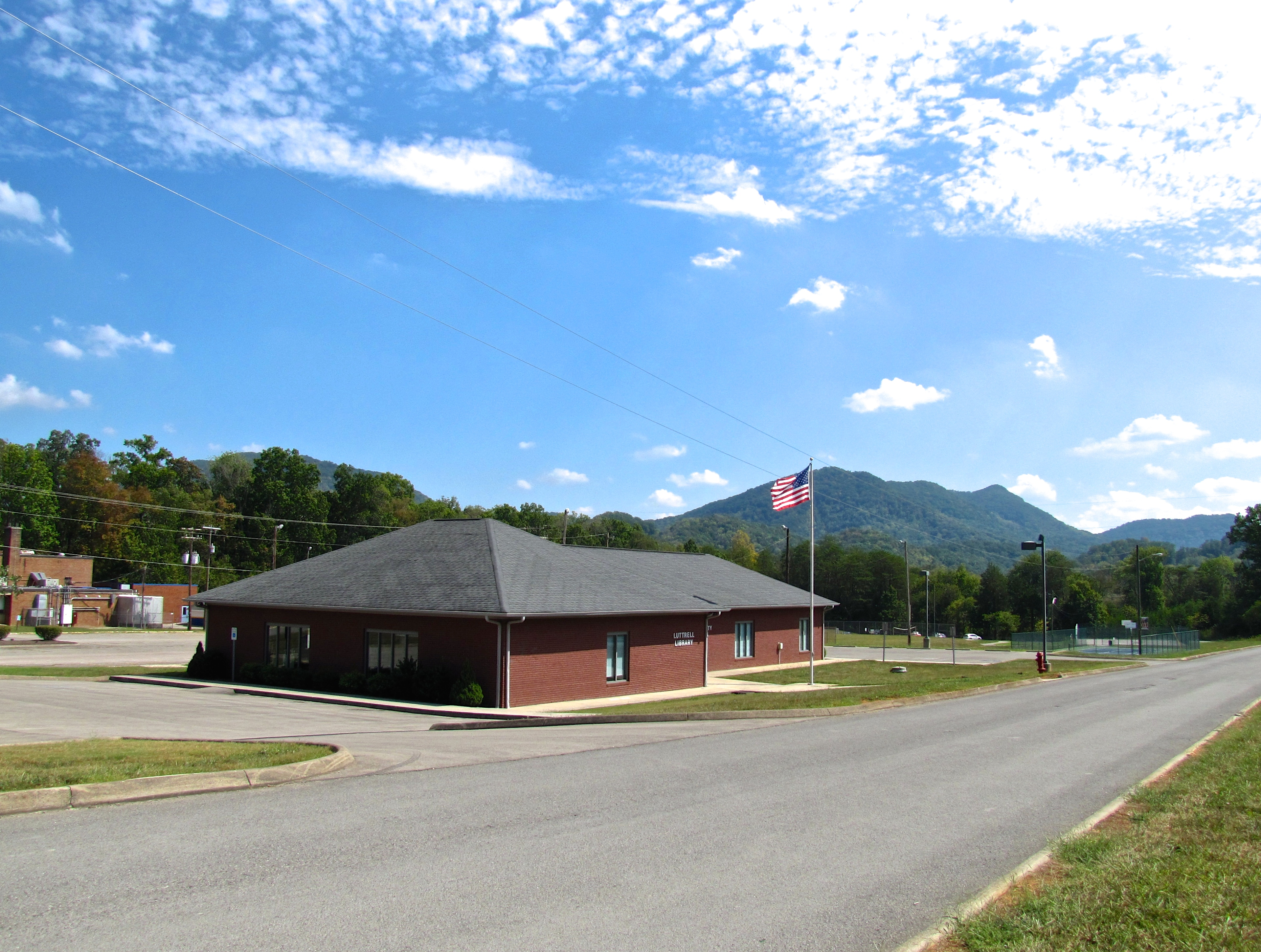 Luttrell Library in Luttrell, Tennessee, United States. Clinch Mountain rises in the background.